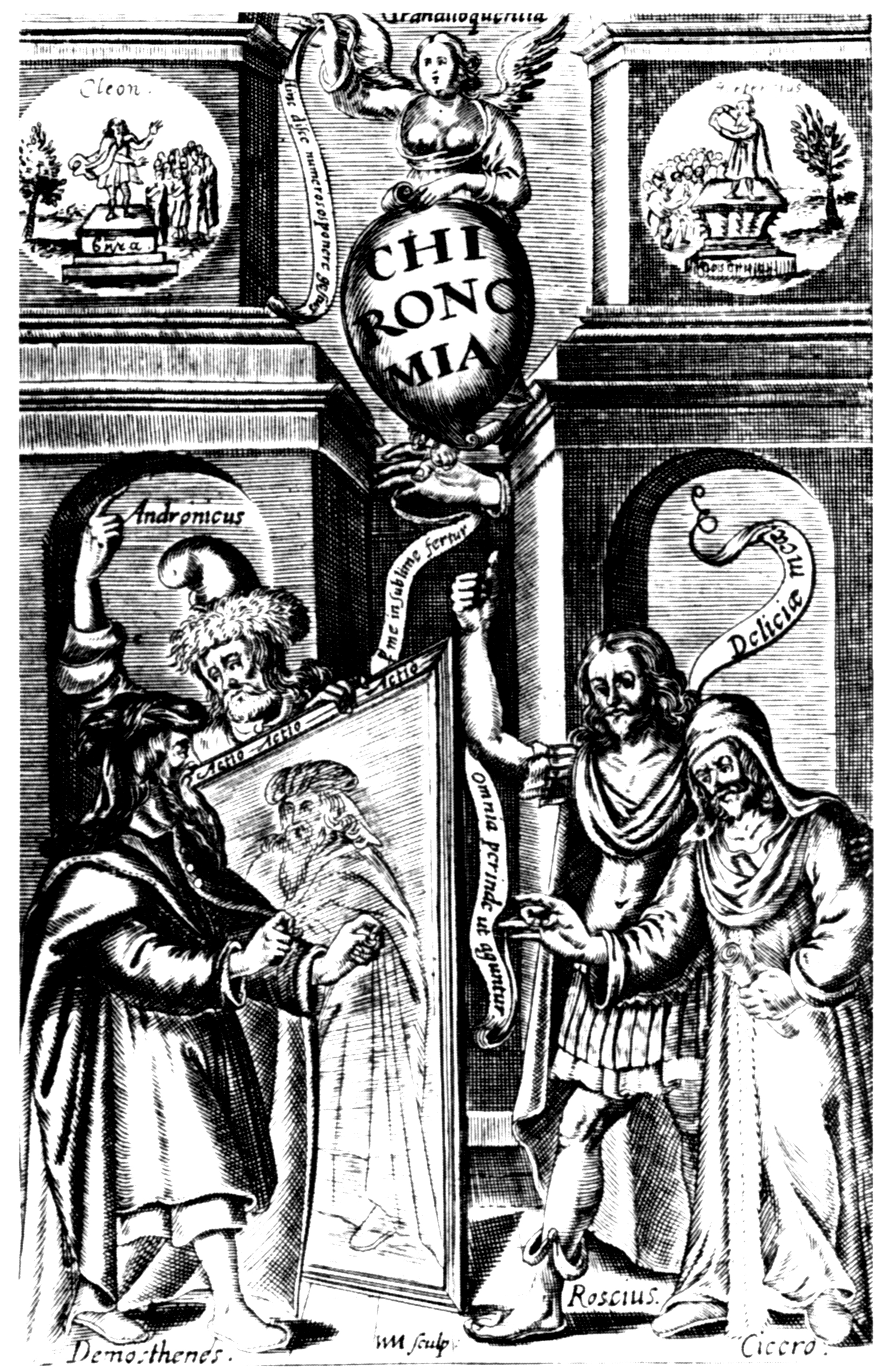 Title page of John Bulwer MD's Chironomia (1644), showing rhetoricians and actors - Demosthenes, Andronicus, Roscius and Cicero